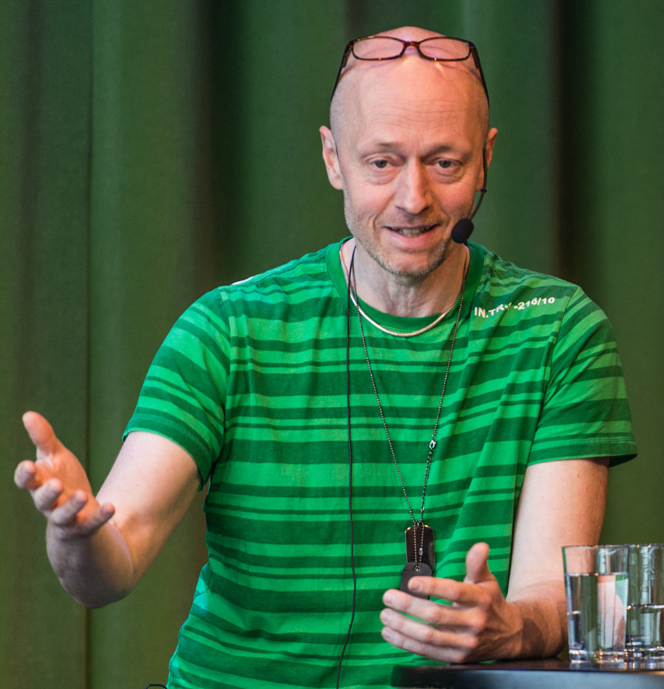 Manifestation in Stockholm in June 2015 for Dawit Isaak who has been imprisoned for 5000 days in Eritrea.